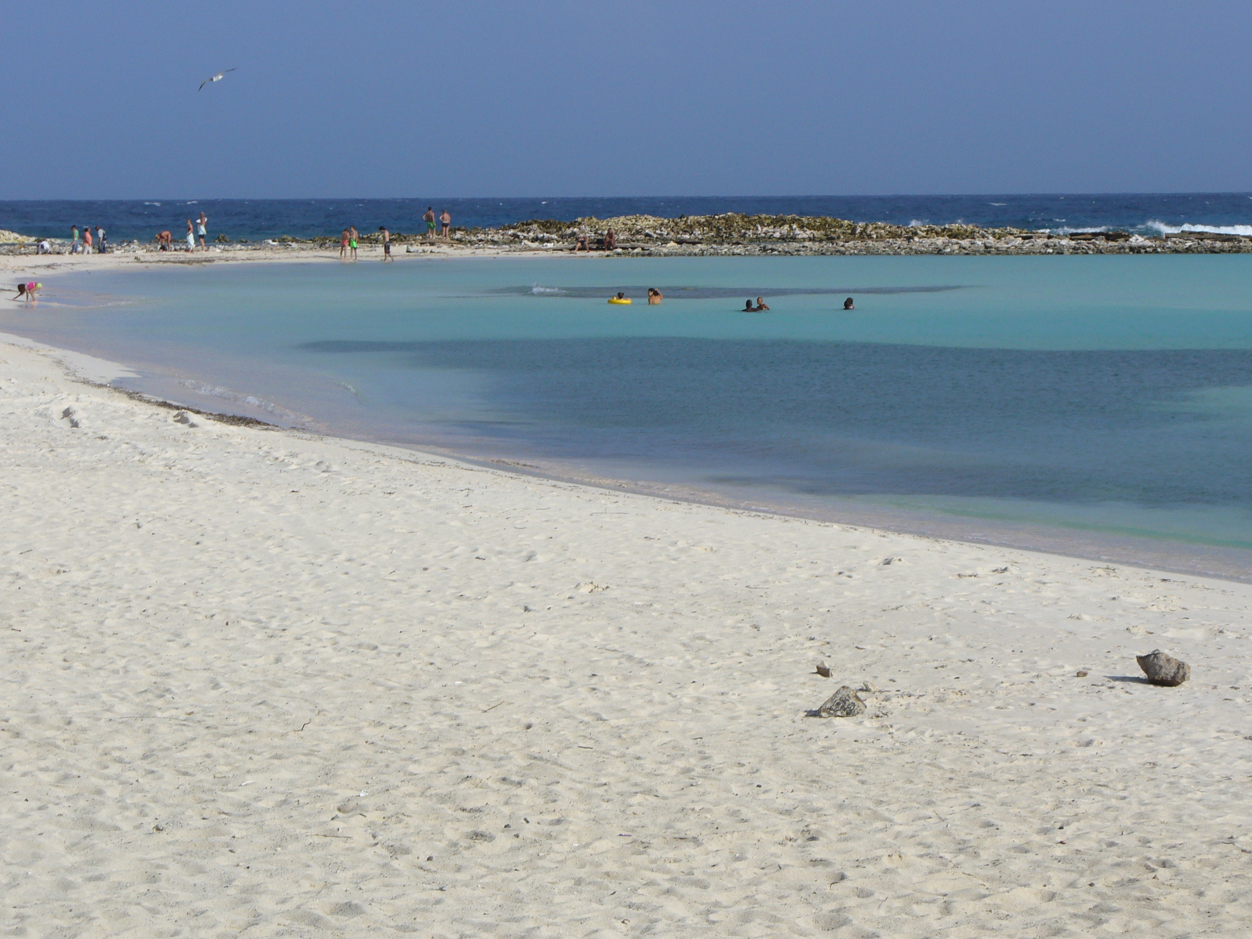 Photo of Baby Beach, Aruba, taken in June 2006 by Paul Jensen while on vacation on the island.